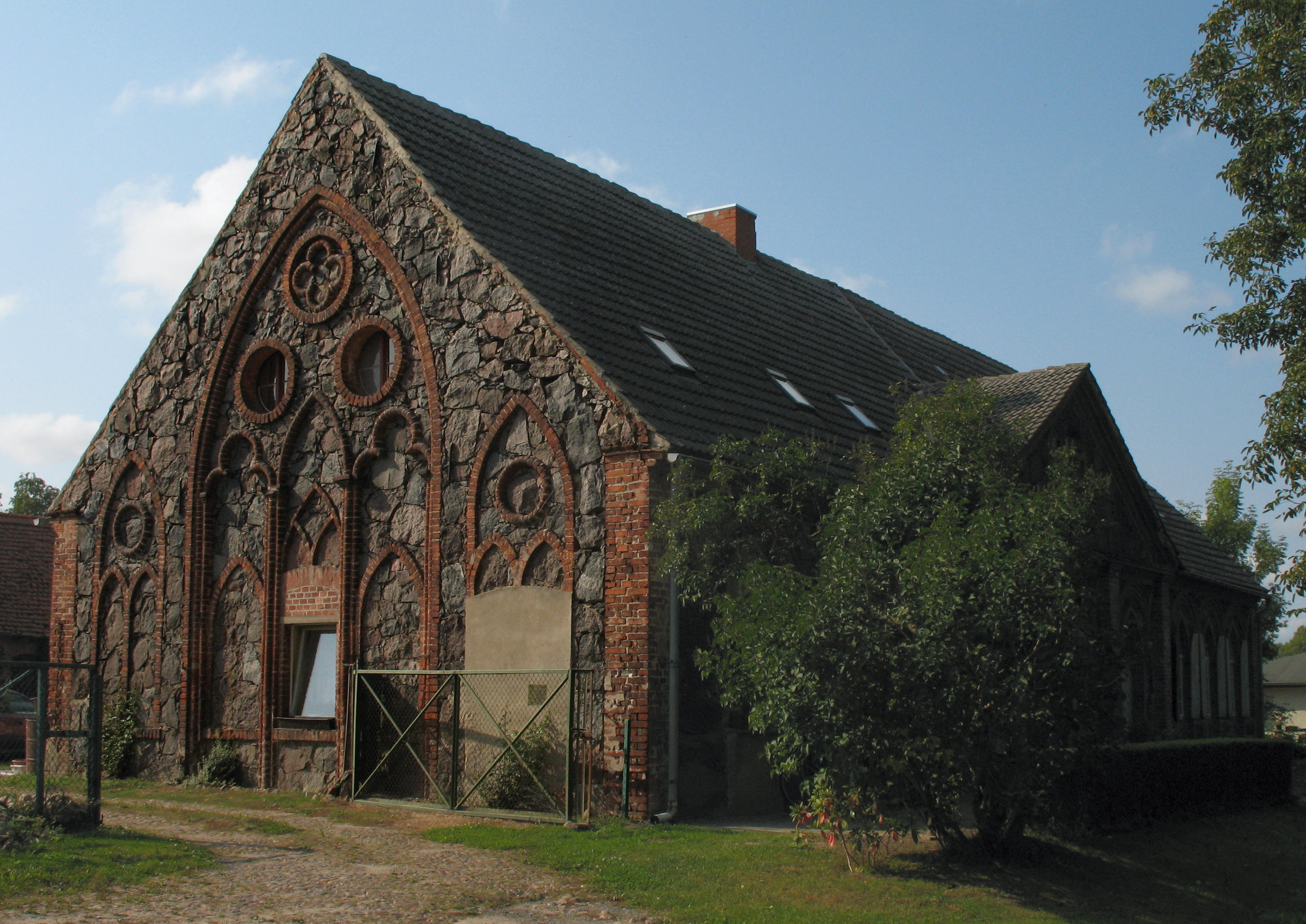 Former toll house in Uckerland-Wolfshagen in Brandenburg, Germany